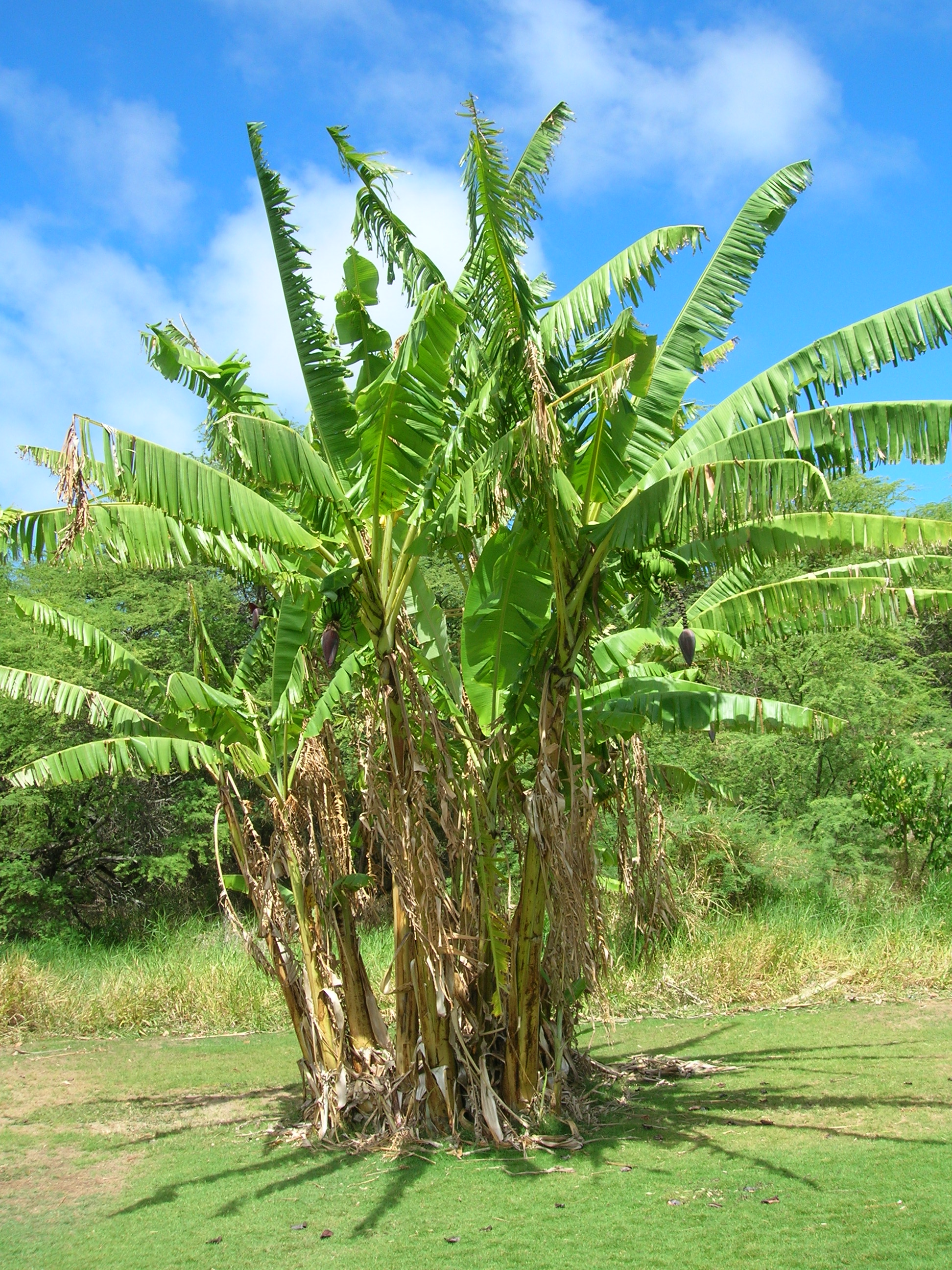 Musa sp. (with fruit). Location: Maui, Kanaha Beach